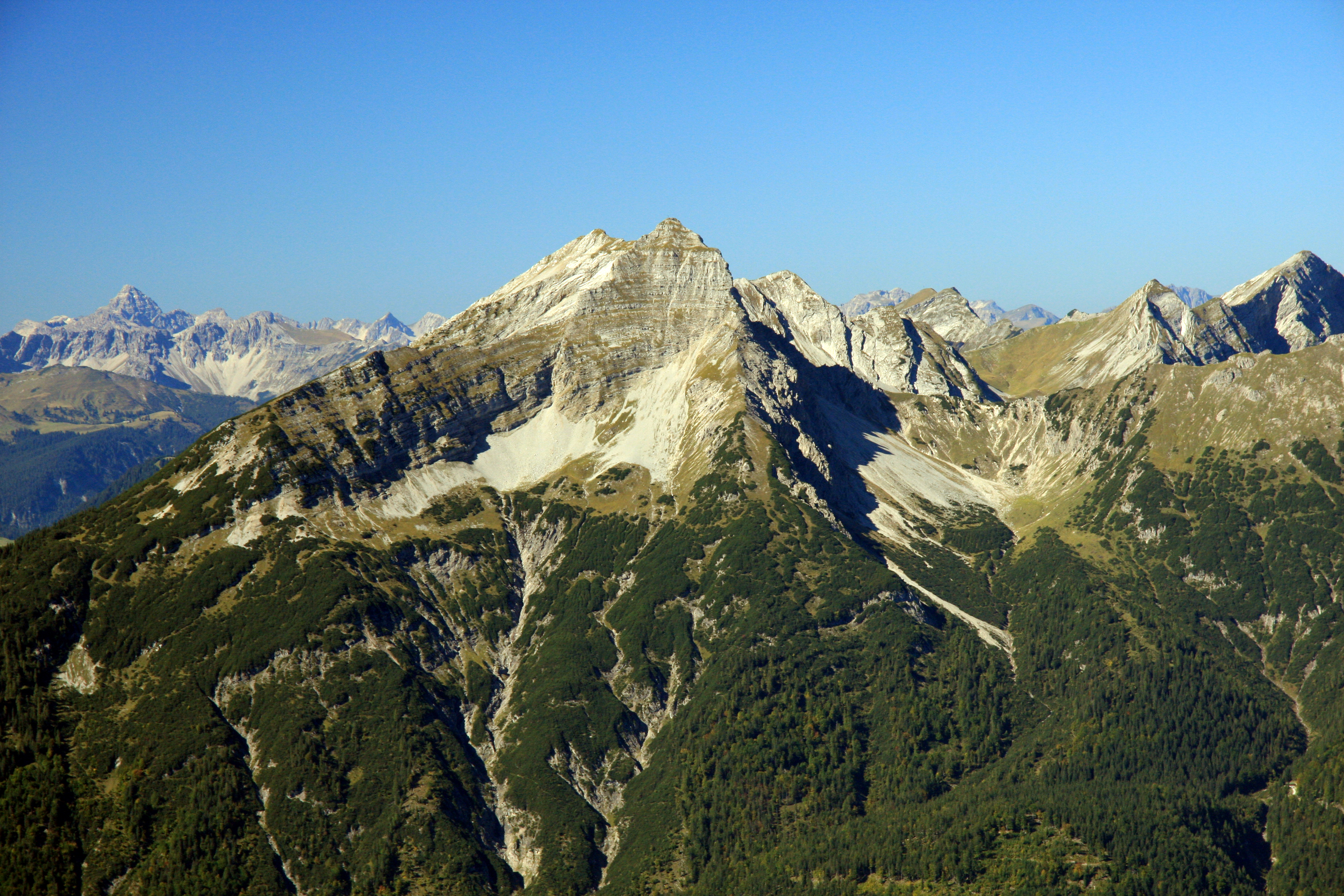 Mountain Daniel in the Ammergau Alps. Foto taken from the mountain Riffeltorkopf.